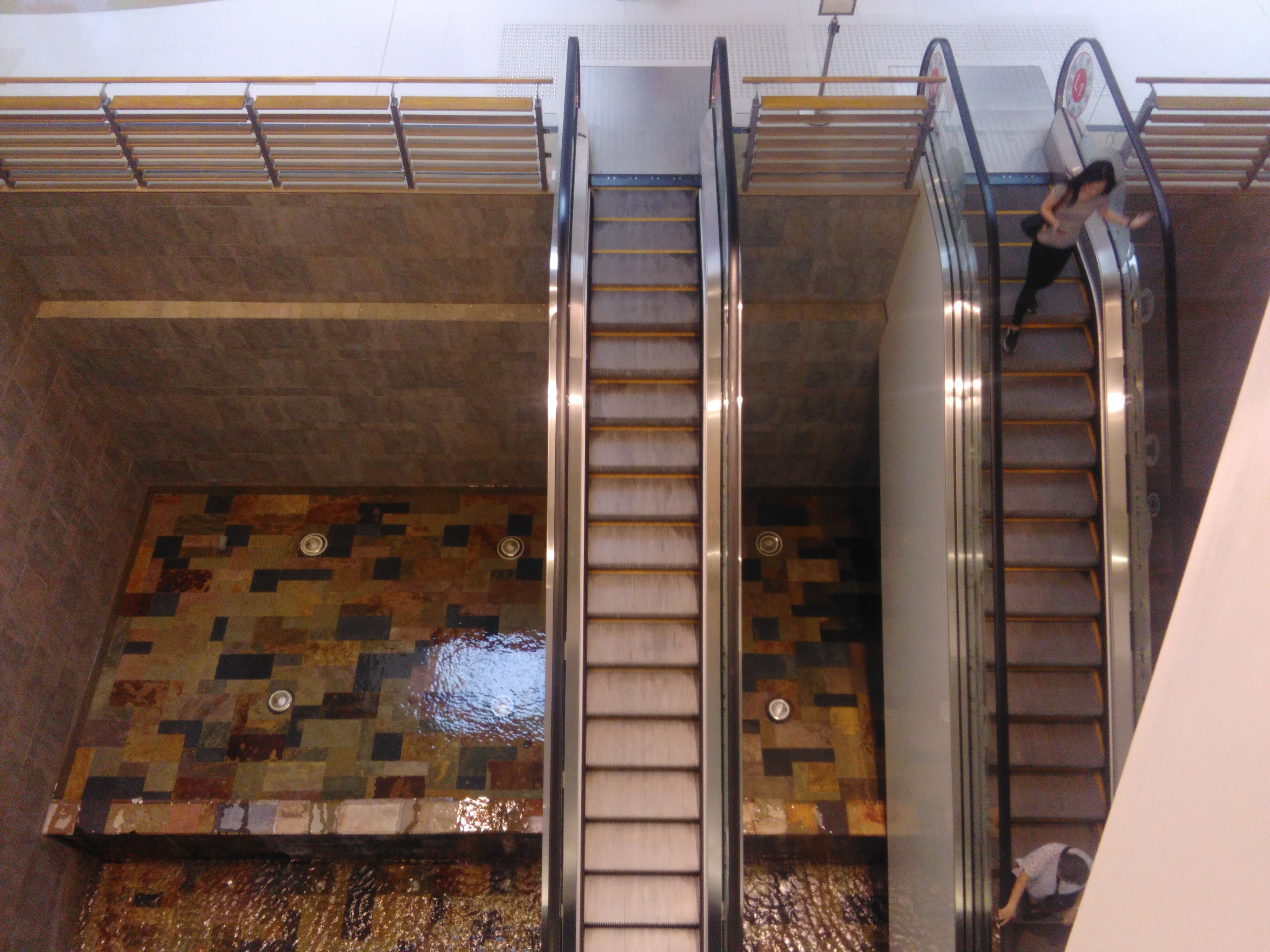 Tseung Kwan O Plaza Mall Japanese Garden with waterfall